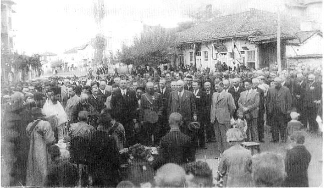 Laying the foundation stone оf Stamen Panchev monument, Botevgrad, 24 May 1938